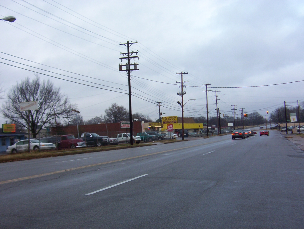 National St and Jackson Ave (in the background) in Nutbush. (Jan 2008) Photo made by: Thomas R Machnitzki I made the photo myself, feel free to use it.